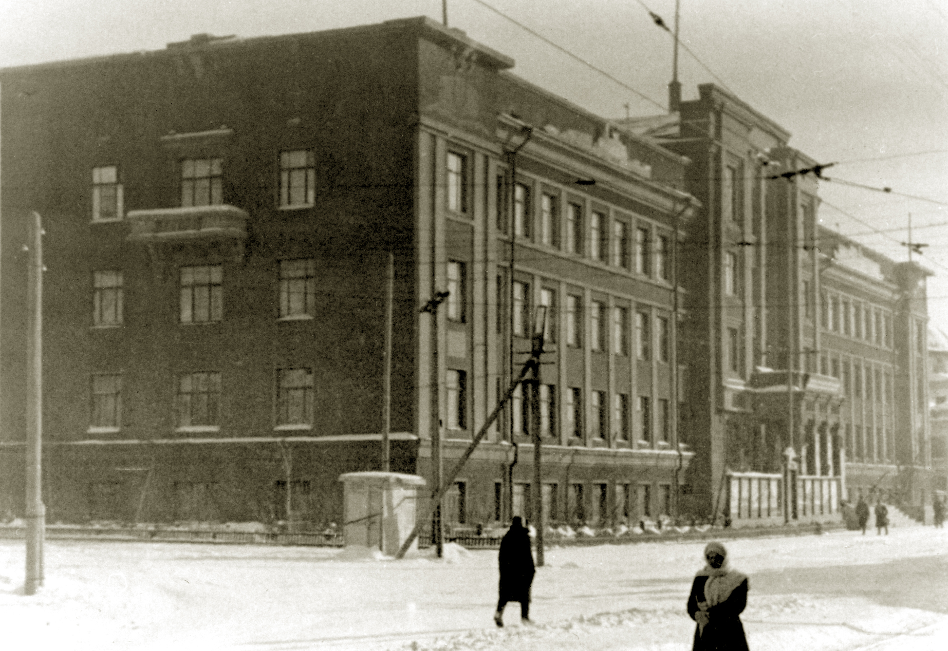 Факсимиле Л.Л. Кербера.